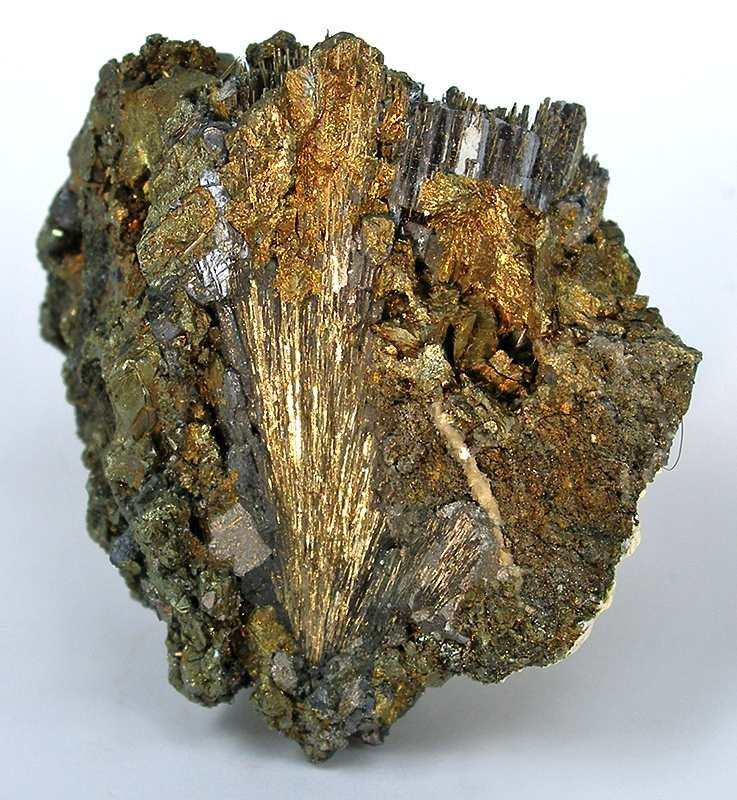 Millerite Locality: Victoria Mine, Littfeld, Siegerland, North Rhine-Westphalia, Germany (Locality at ) Size: 4 x 3 x 3 cm. This superb old classic millerite has a large spray of golden-metallic crystals showing, embedded in the chalcopyrite matrix around it. The tips of the freestanding crystals stick out the top of the piece, showing that this is not a contact cleavage fragment but rather a natural grouping of intact crystals enmeshed partly in the matrix. Ex. Carl Bosch Collection.